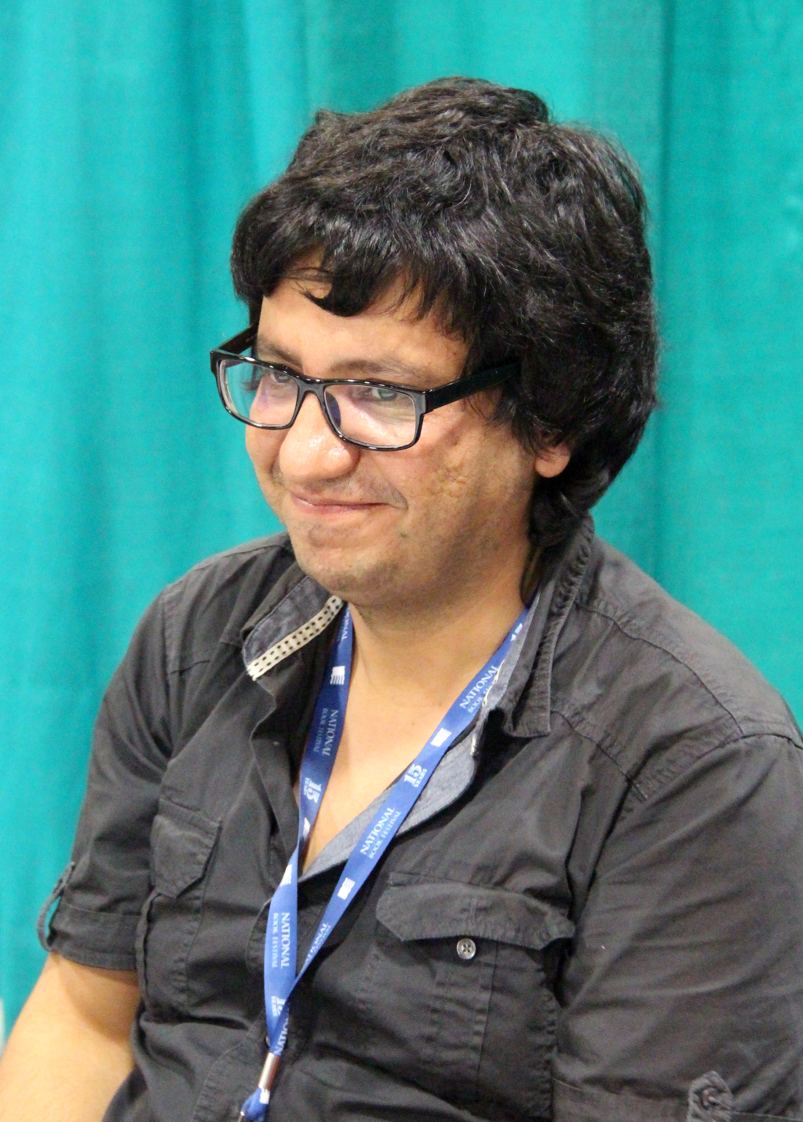 2015 Library of Congress National Book Festival September 5, 2015 Washington, DC